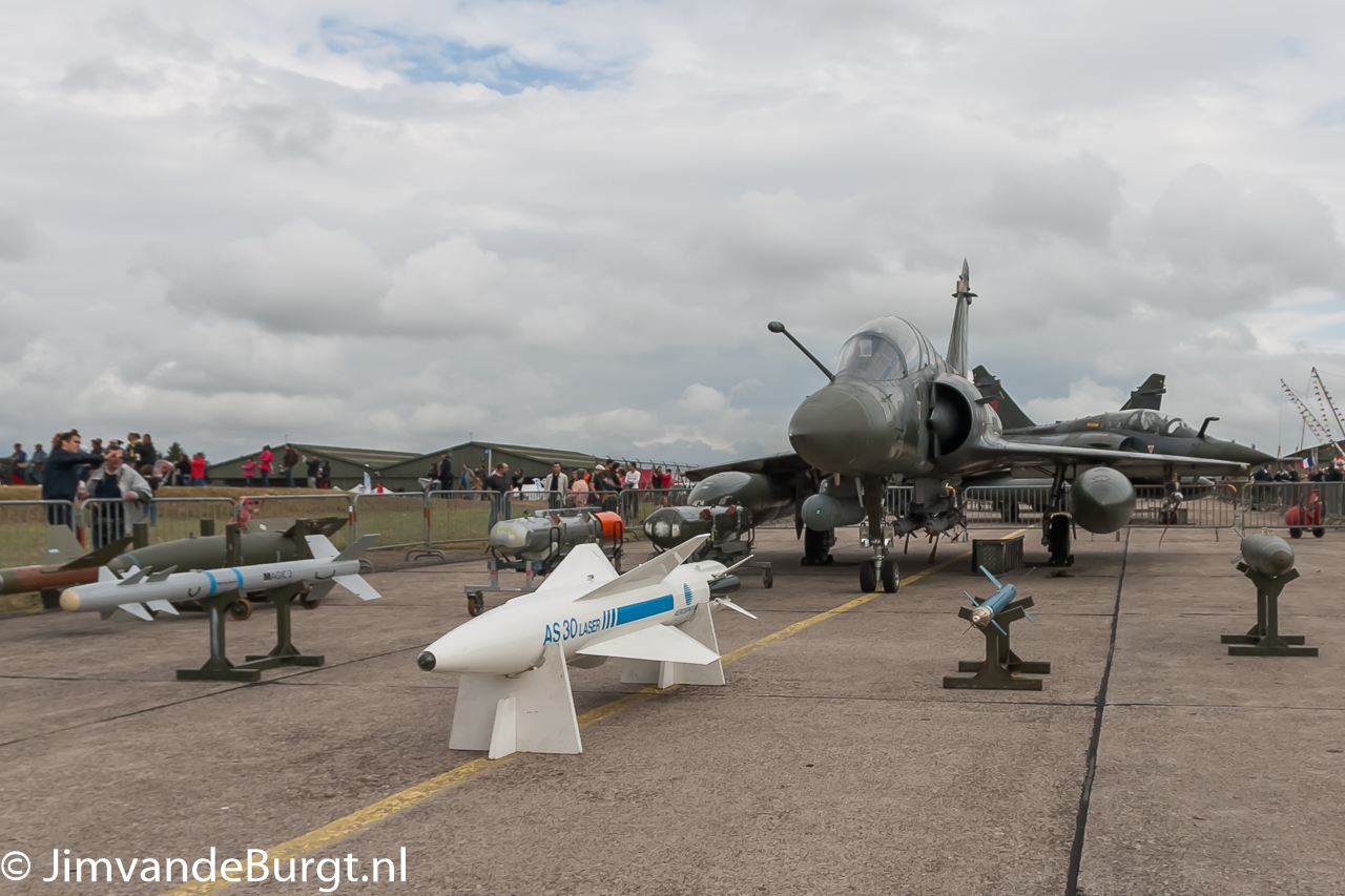 2014 Meeting de l'airir Base aerienne 133 Nancy-Ochey, France